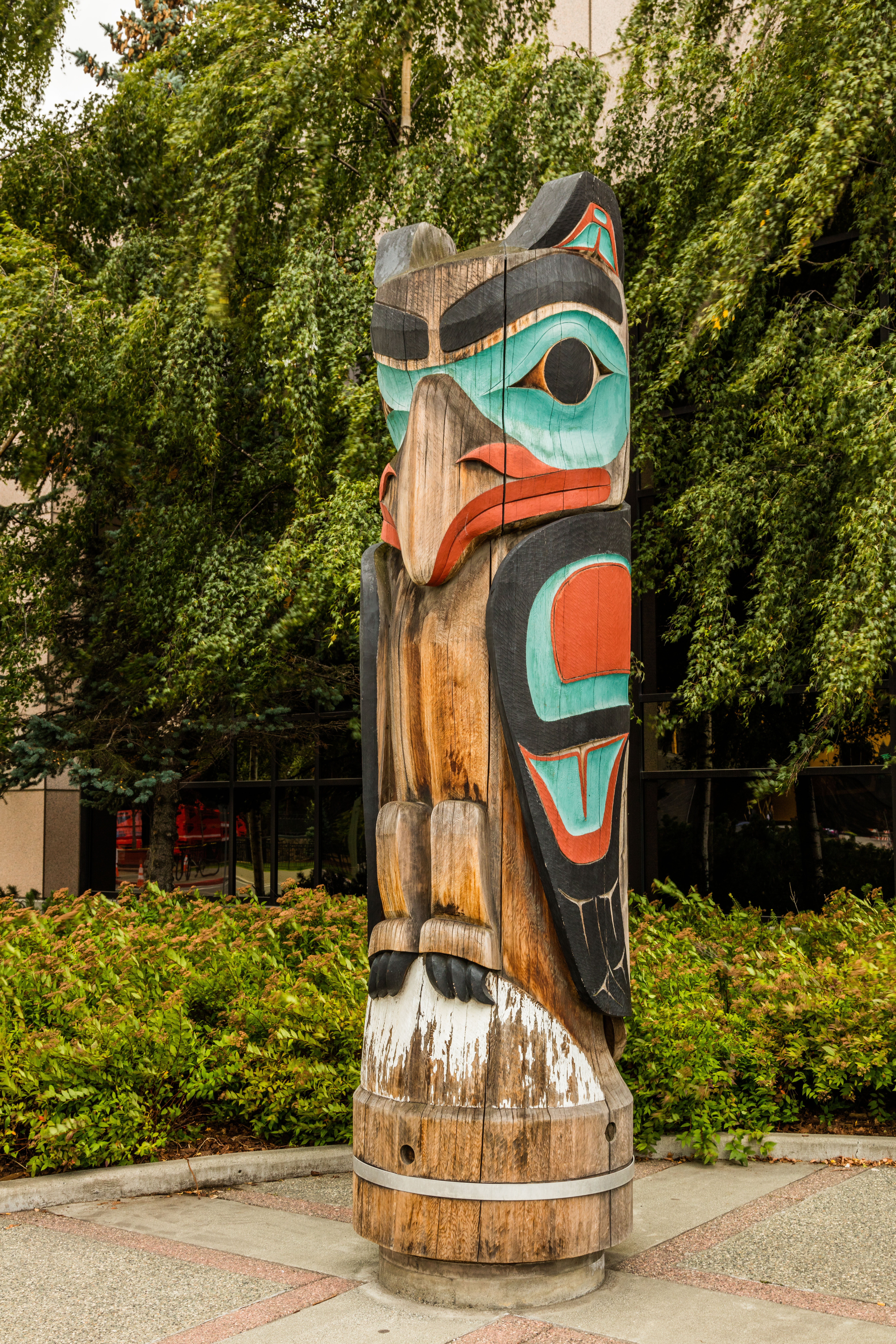 Totem pole, Anchorage, Alaska, United States